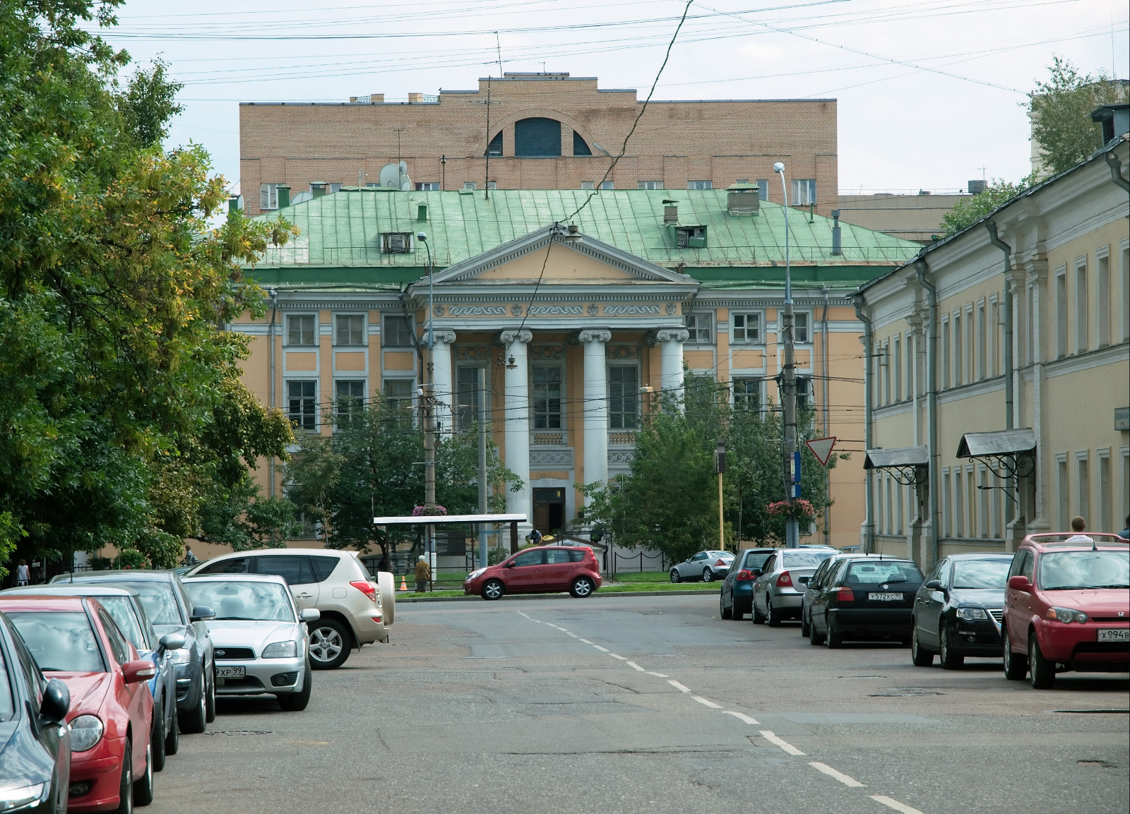 13, Komsomolsky Prospect, Moscow (view from Ksenyinsky Lane) - the Chef's House, built in 1770s-1780s. A Lopukhin family property in 17th century, in 1718 - the house of John Tames, Dutch (?) director of Khamovniki Mills.